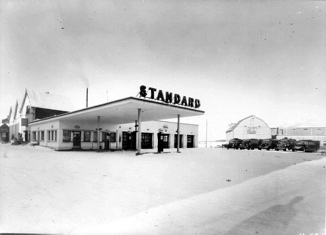 Old Esso standard station in Oulu